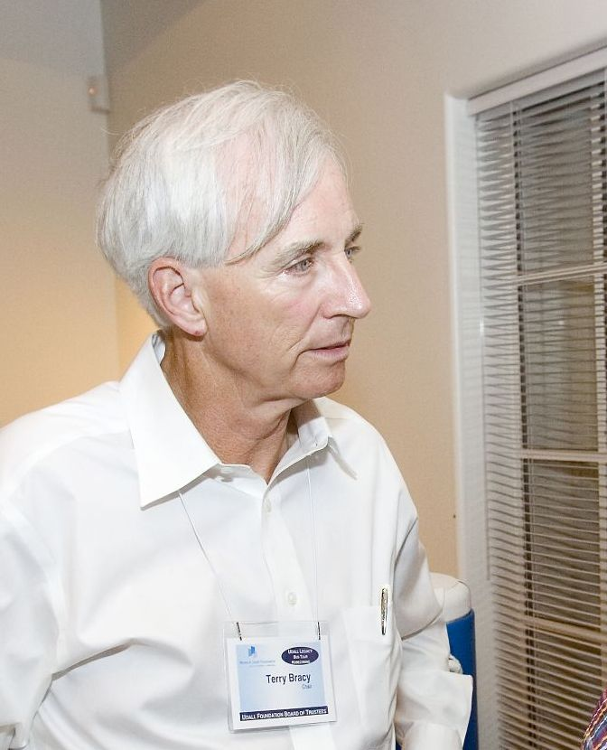 Chairman Terry Bracy and Menominee Tribal Member, Ada Deer